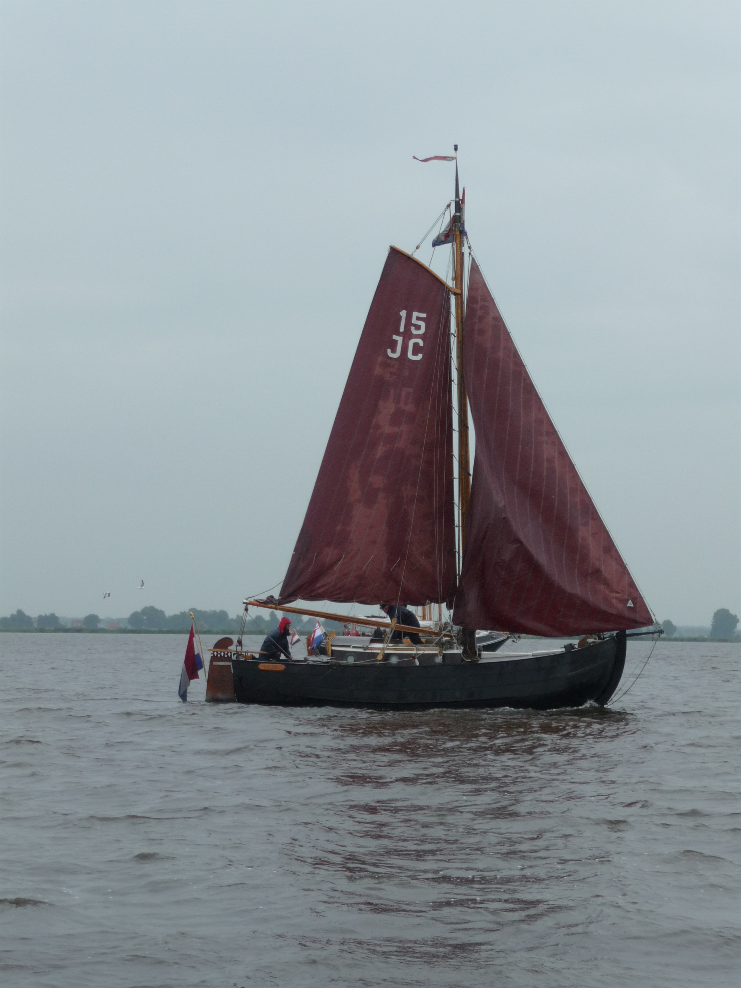 The Staverse Jol Vrouke (JC15). The photo was shot during the admiraalzeilen at the VSRP 2010 reunion. SSRP entry for Vrouke (JC15)